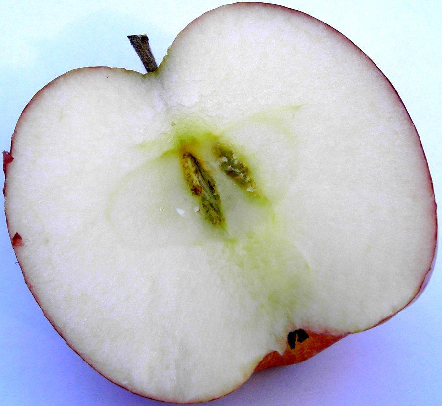 Cross-cut of an apple - red delicius.